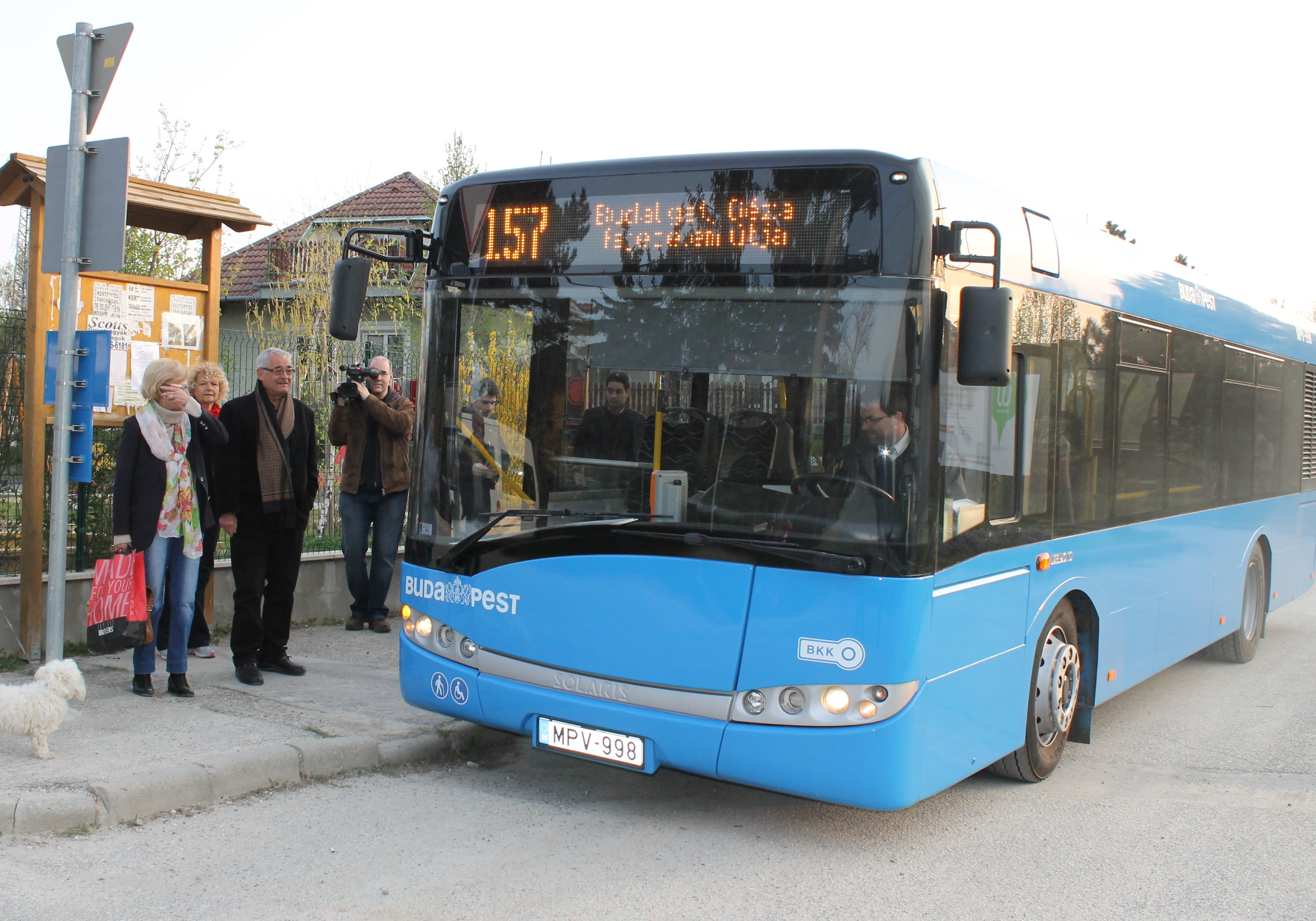 A 157-es busz első napja Solymár-Kerekhegyen, Pest megye (2014. április 1.)